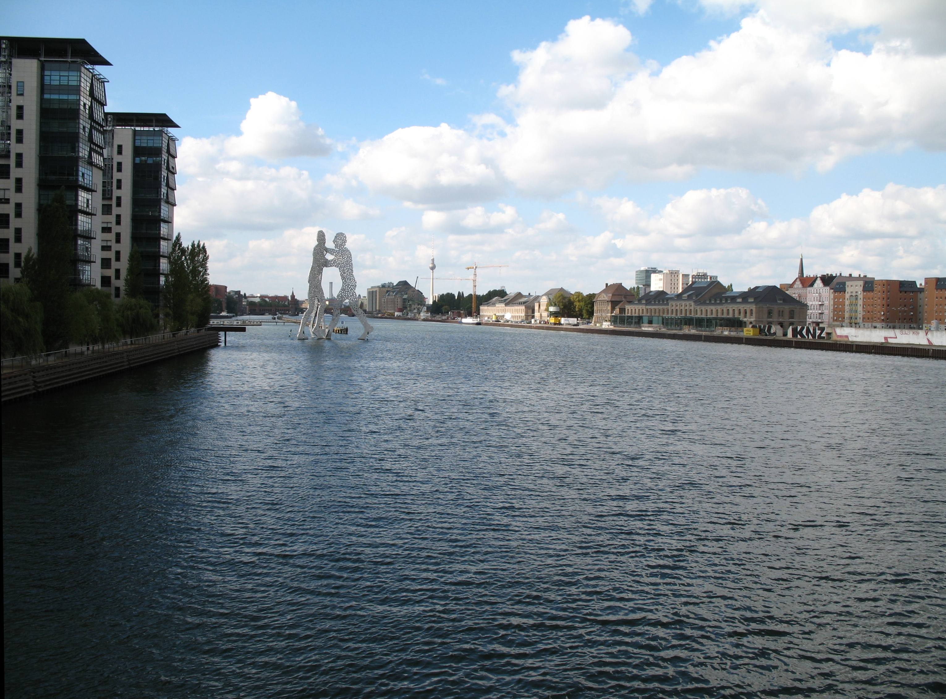 Downstream view to Spree river from the "Elsenbrücke" in Berlin